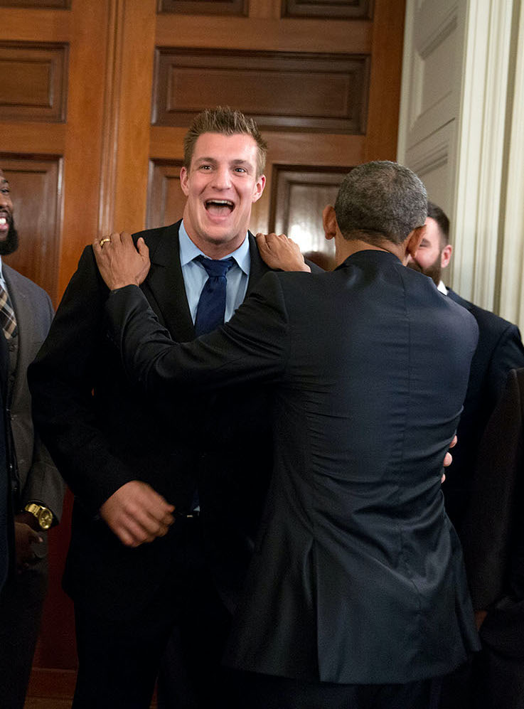 President Barack Obama jokes with tight end Rob Gronkowski, as he greets the New England Patriots in the State Dining Room, prior to an event to honor the team and their Super Bowl XLIX victory, at the White House, April 23, 2015. (Official White House Photo by Pete Souza)